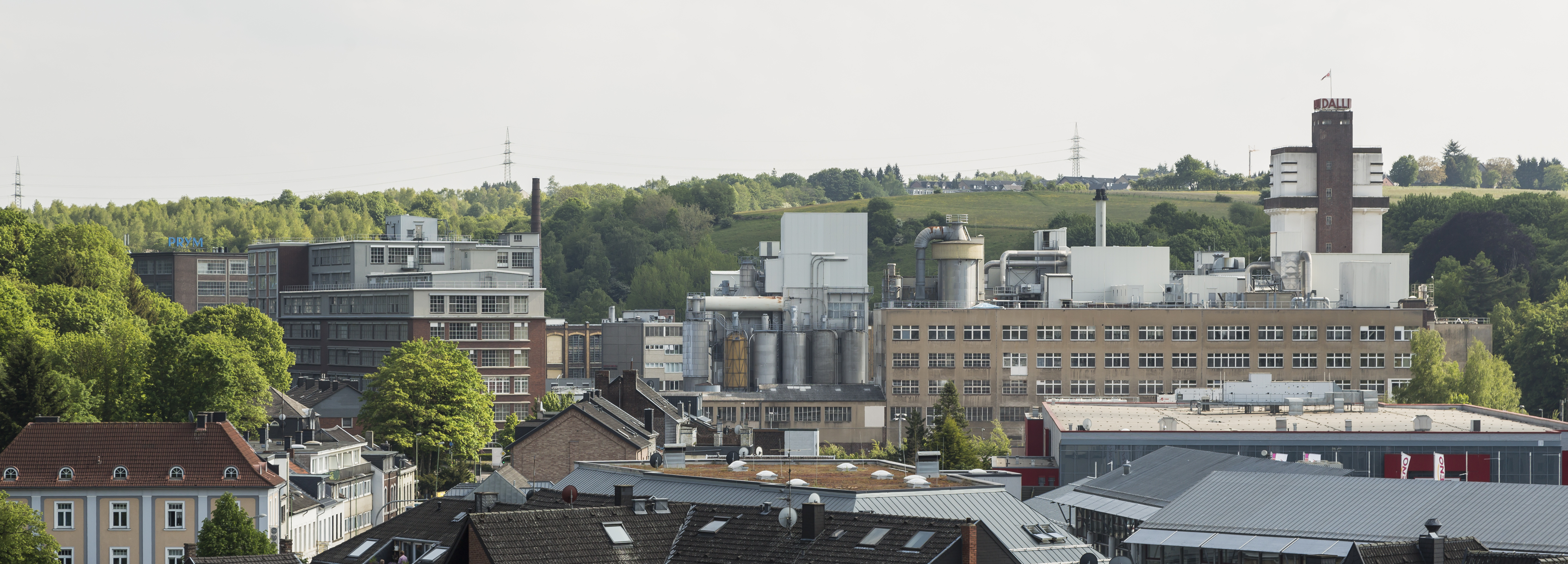 Stolberg, Germany: William Prym GmbH & Co. KG (left) and Dalli-Werke GmbH & Co. KG. (right)